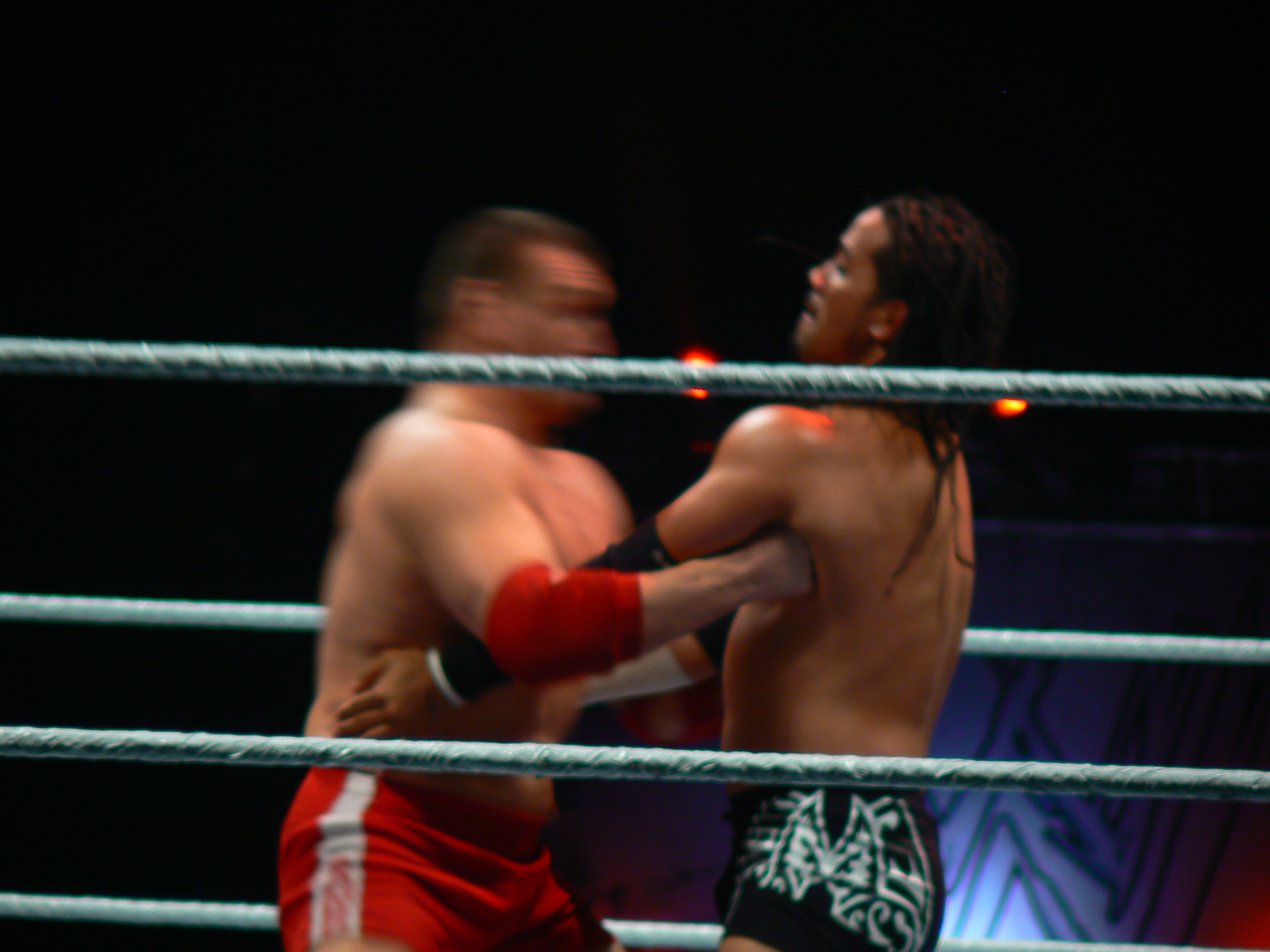 Kozlov performing his Trapping headbutts to Jey Uso.